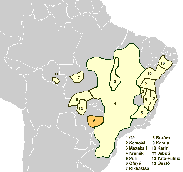 Ofayé/Opaié language (orange), (probable spread area, at the time of contact) Source: Ribeiro, Eduardo & Van der Voort, Hein (2010) “Nimuendajú was right: The inclusion of the Jabuti language family in the Macro-Jê stock”, International Journal of American Linguistics, 76/4.